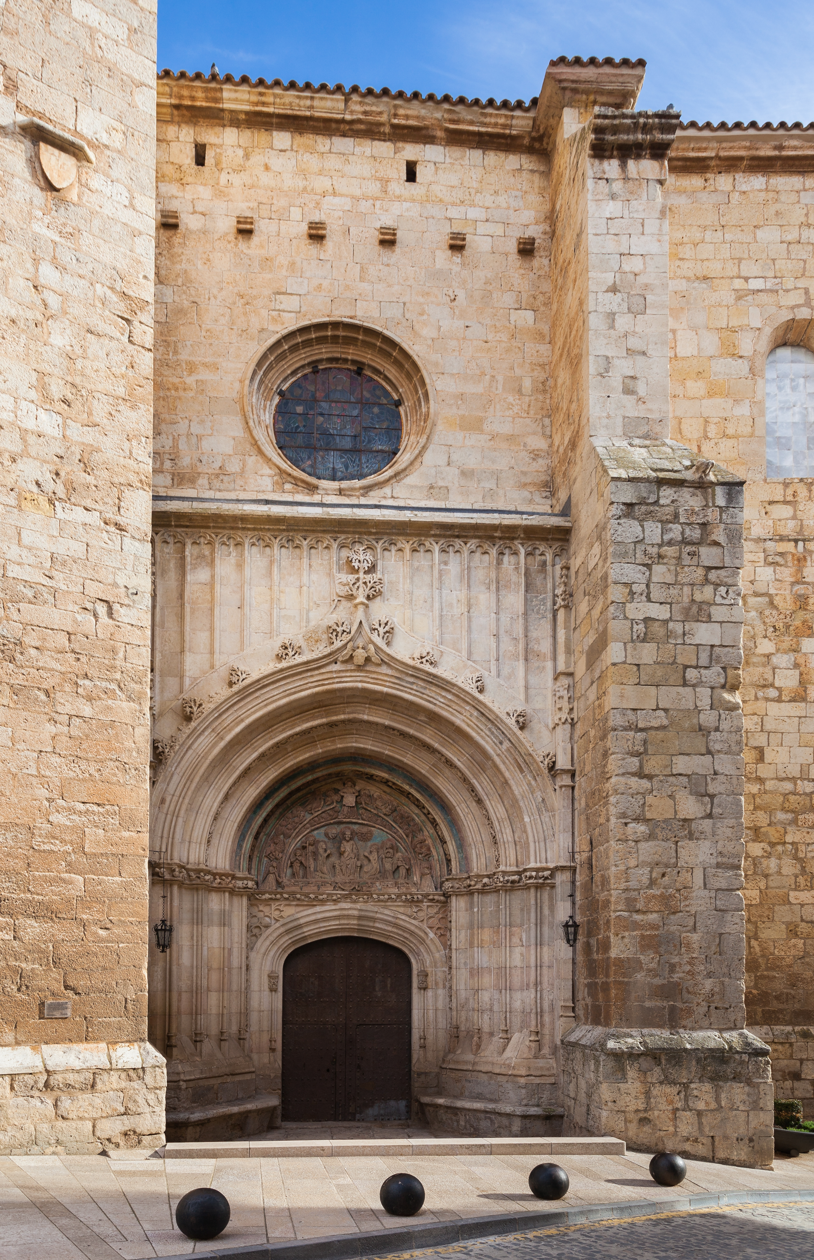 Colegiata de Santa Maria de los Sagrados Corporales, Daroca, Zaragoza, Spain